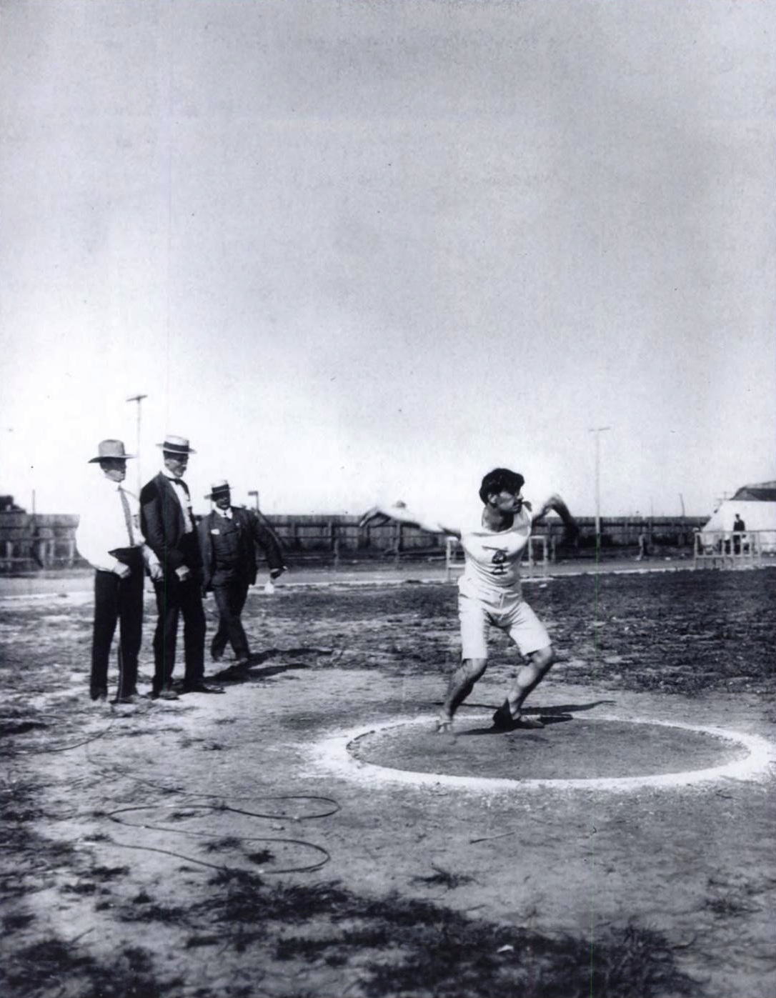 Nikolaos Georgantas (Greece) competing in the discus throw at the 1904 Summer Olympics in St. Louis, Missouri, USA.